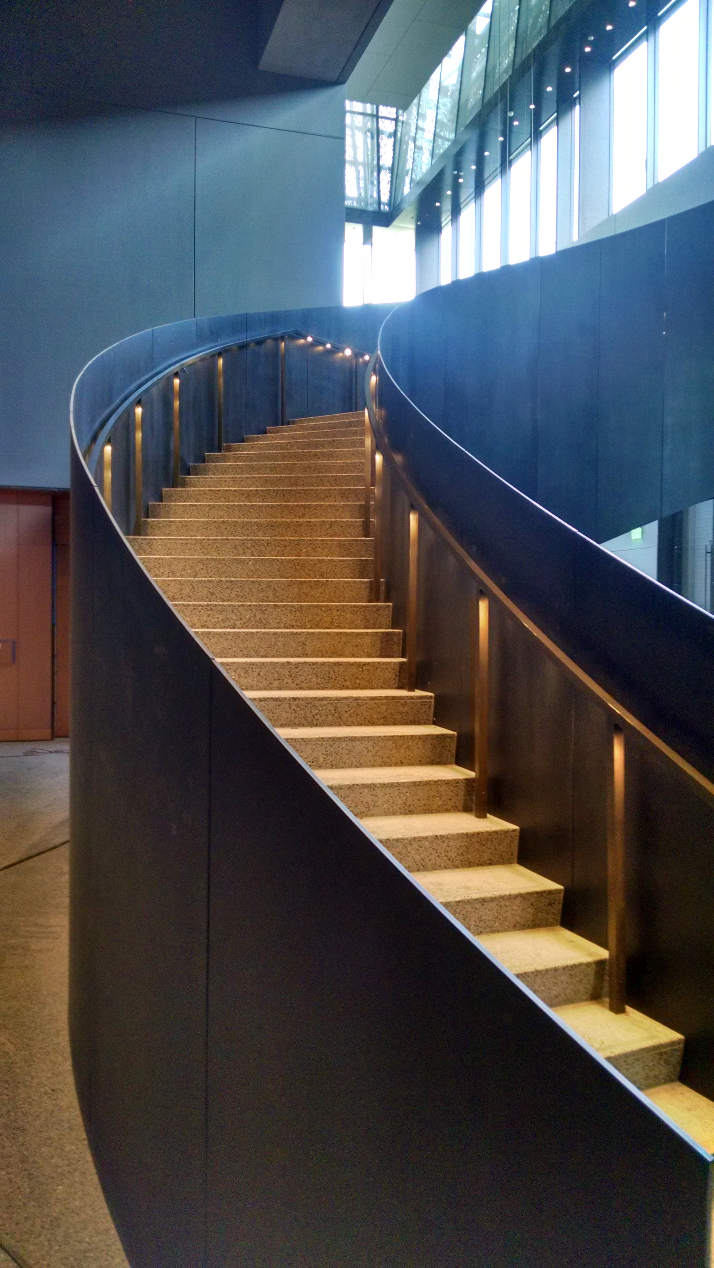 NMAAHC Monumental Stair as Designed By Austin Jeglum and Fabricated by AIW, Inc.